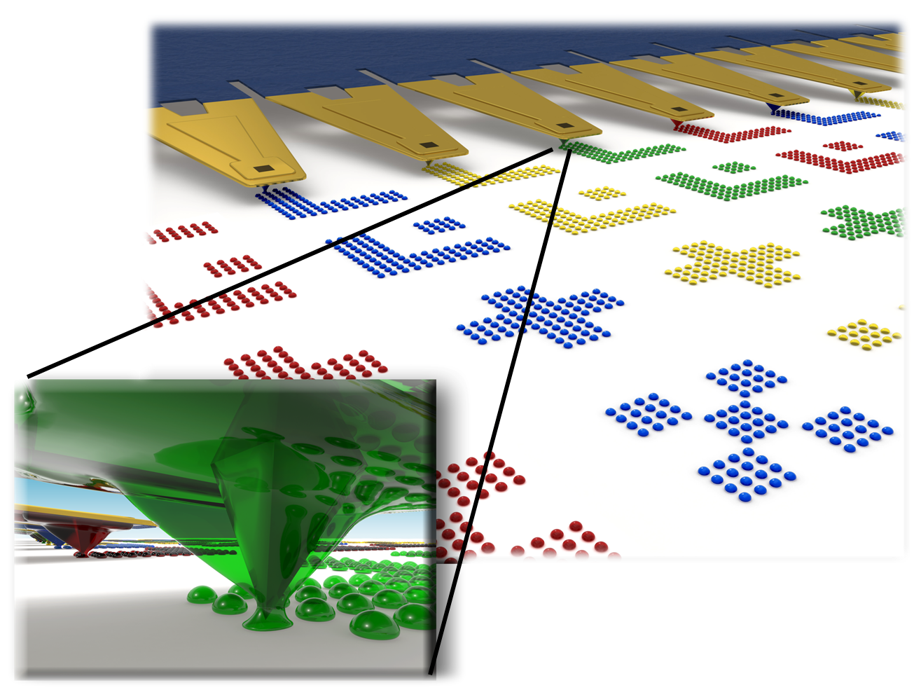 Illustration showing the multiplexed deposition of liquids from multiple DPN tips.